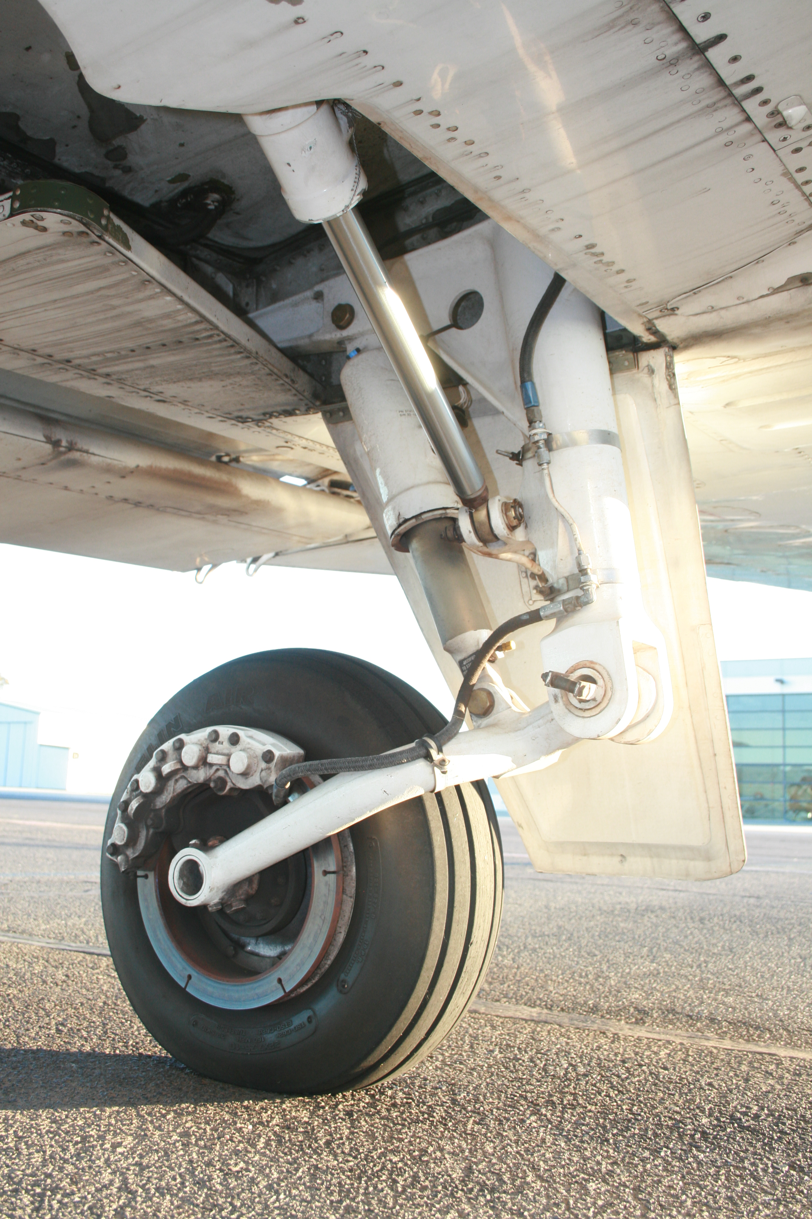 A light aircraft's main landing gear leg with trailing link and an oleo strut for shock absorption. Digital image of a LH main landing gear leg on a Cessna 404 Titan, taken by YSSYguy on 17 October 2012 for use in the Landing gear article. YSSYguy (talk) 05:39, 14 February 2014 (UTC)